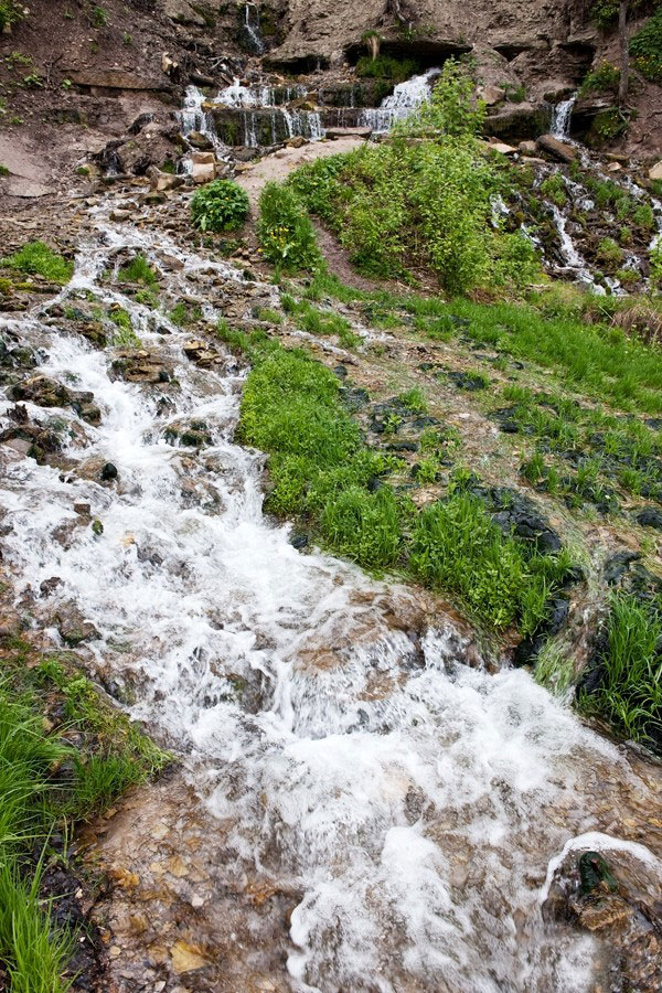 Slovenian keys. Springs near Izborsk fortress.